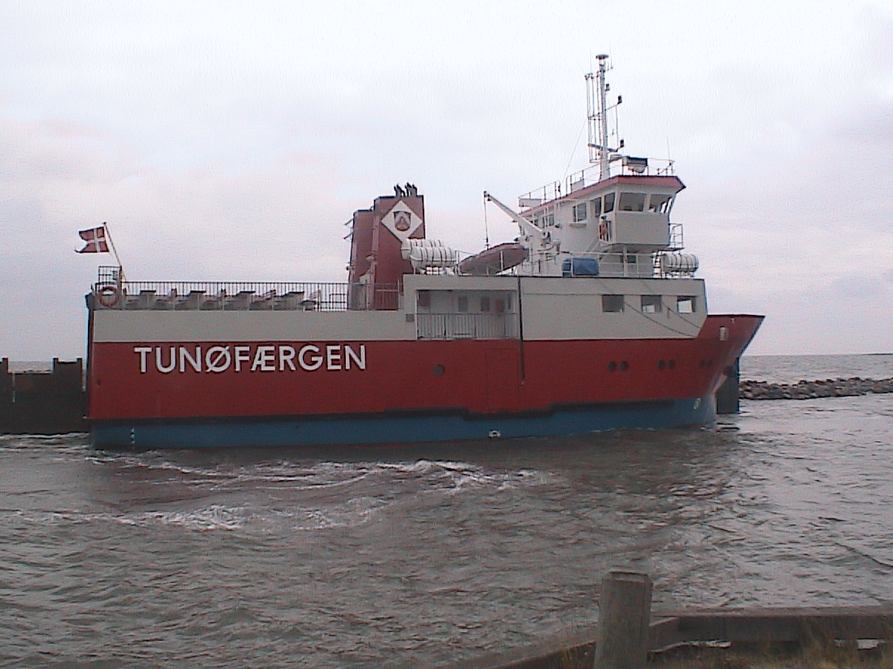 ferry boat at Tunø IMO Number: 9107875 MMSI Number: 219000762 Callsign: OWUS Length: 30 m Beam: 10 m Information about Tunøfærgen may be found at IMO 9107875.A ship can change name and flag state through time, but the IMO number remains the same through the hull's entire lifetime. As a result, it can be useful to identify a ship by using the IMO number.